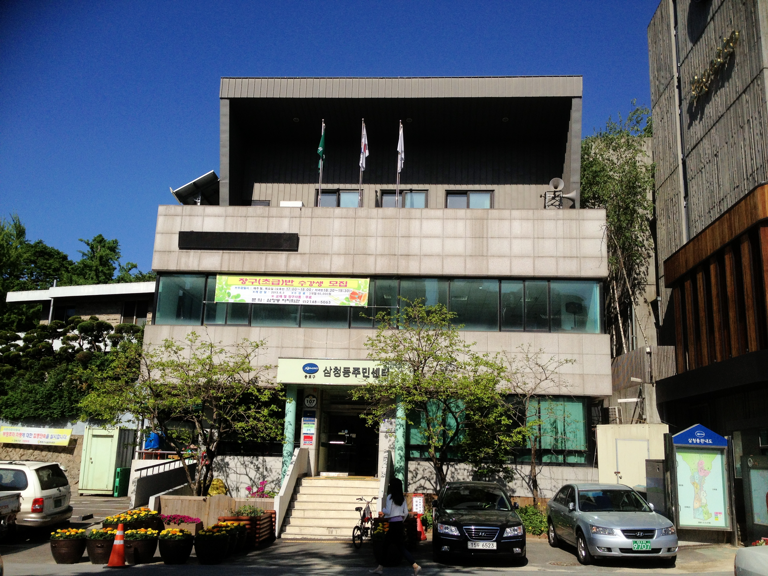 Samcheong-dong Comunity Service Center(Jongno-gu)